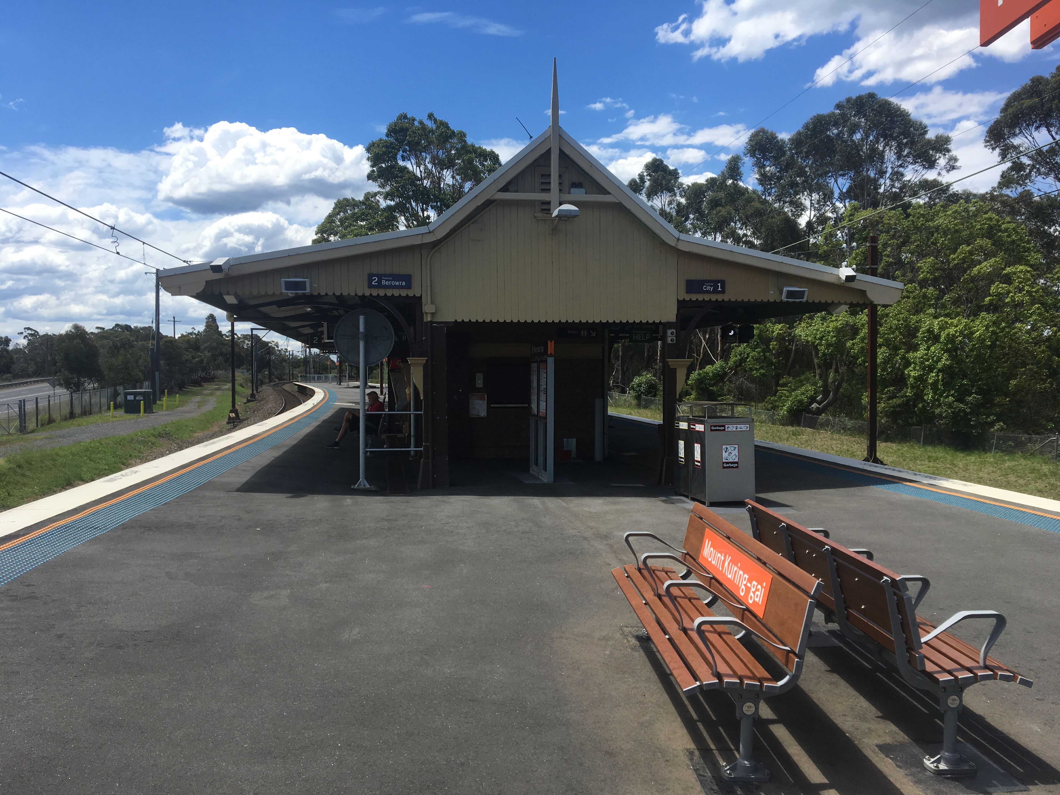 Northbound view in November 2018.